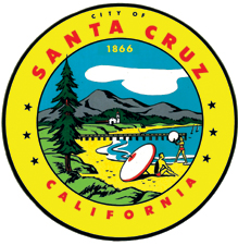 Seal of Santa Cruz, California